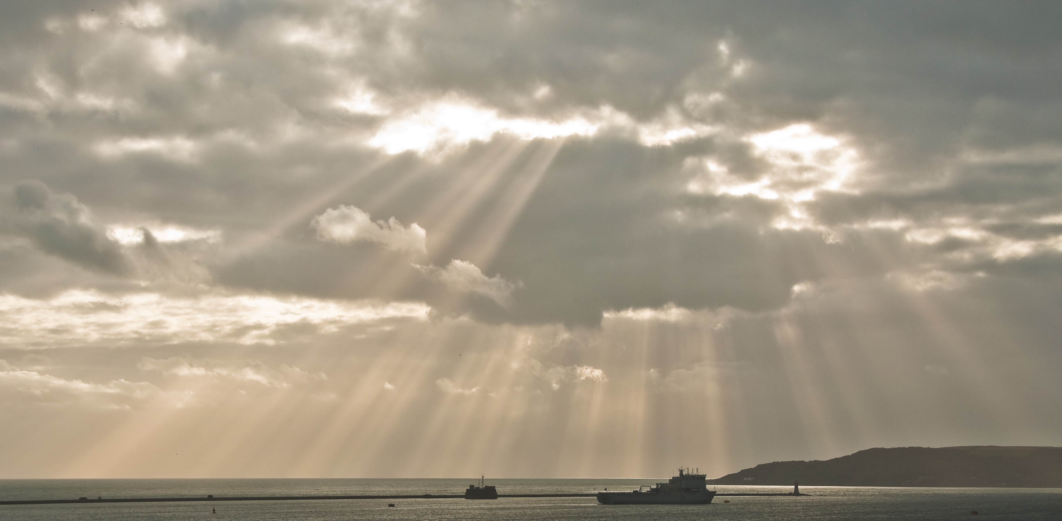 Crepuscular rays spreading out from the sun over Plymouth Sound, UK. Plymouth Breakwater, with its fort and lighthouse, and a Royal Fleet Auxiliary ship are also visible.